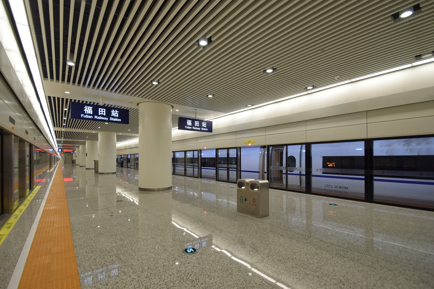 Platform 7-8, Futian Railway Station